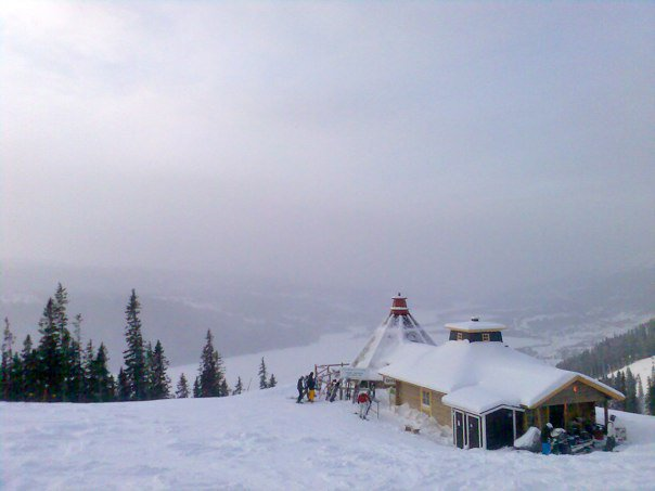 Author: Jaan-Matti Lillevälja; Licence: Free to use when attributing the picture to the author.